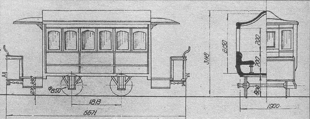 Project of vagon for 45 people